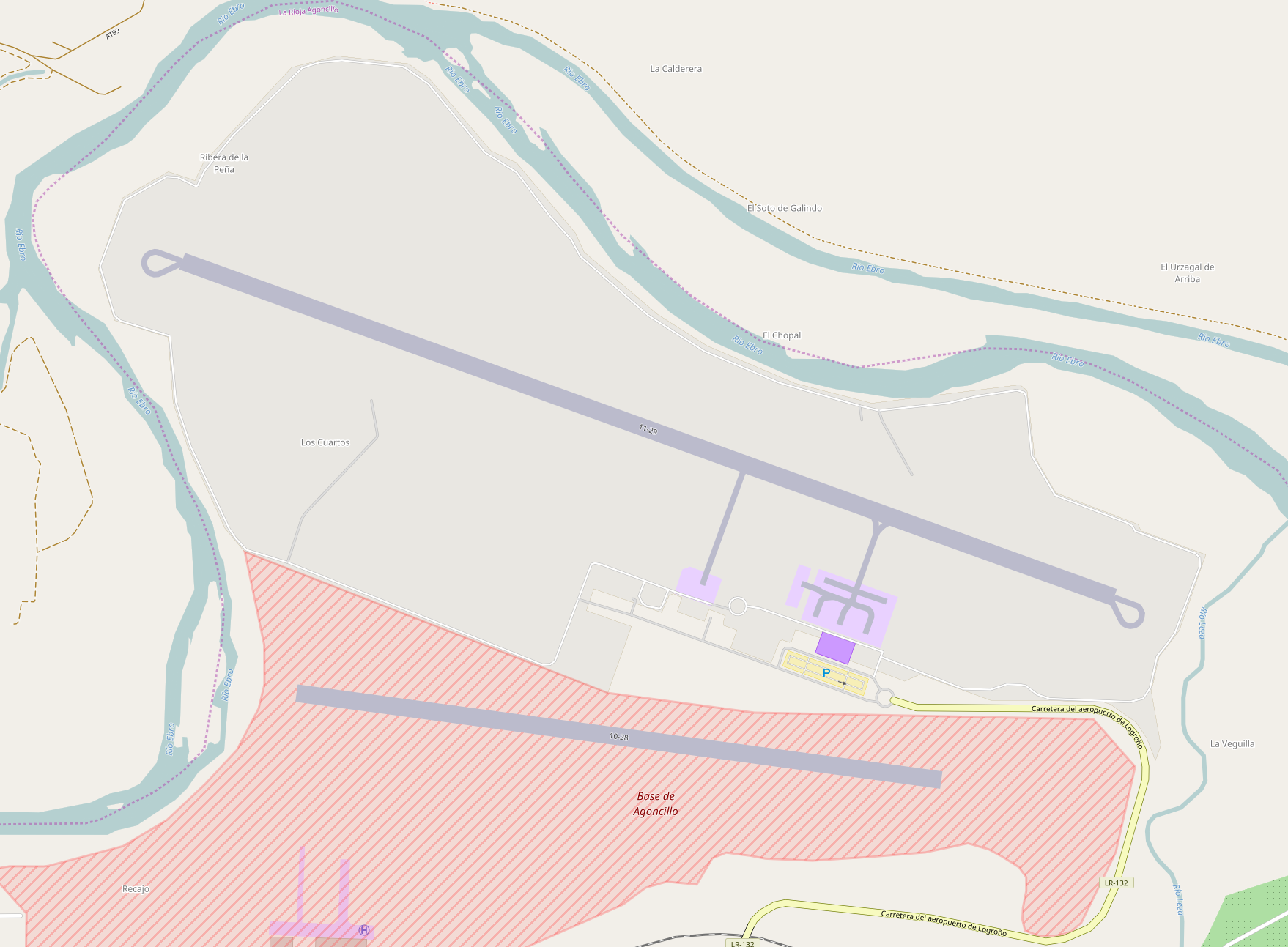 Map of the Airport of Logroño-Agoncillo